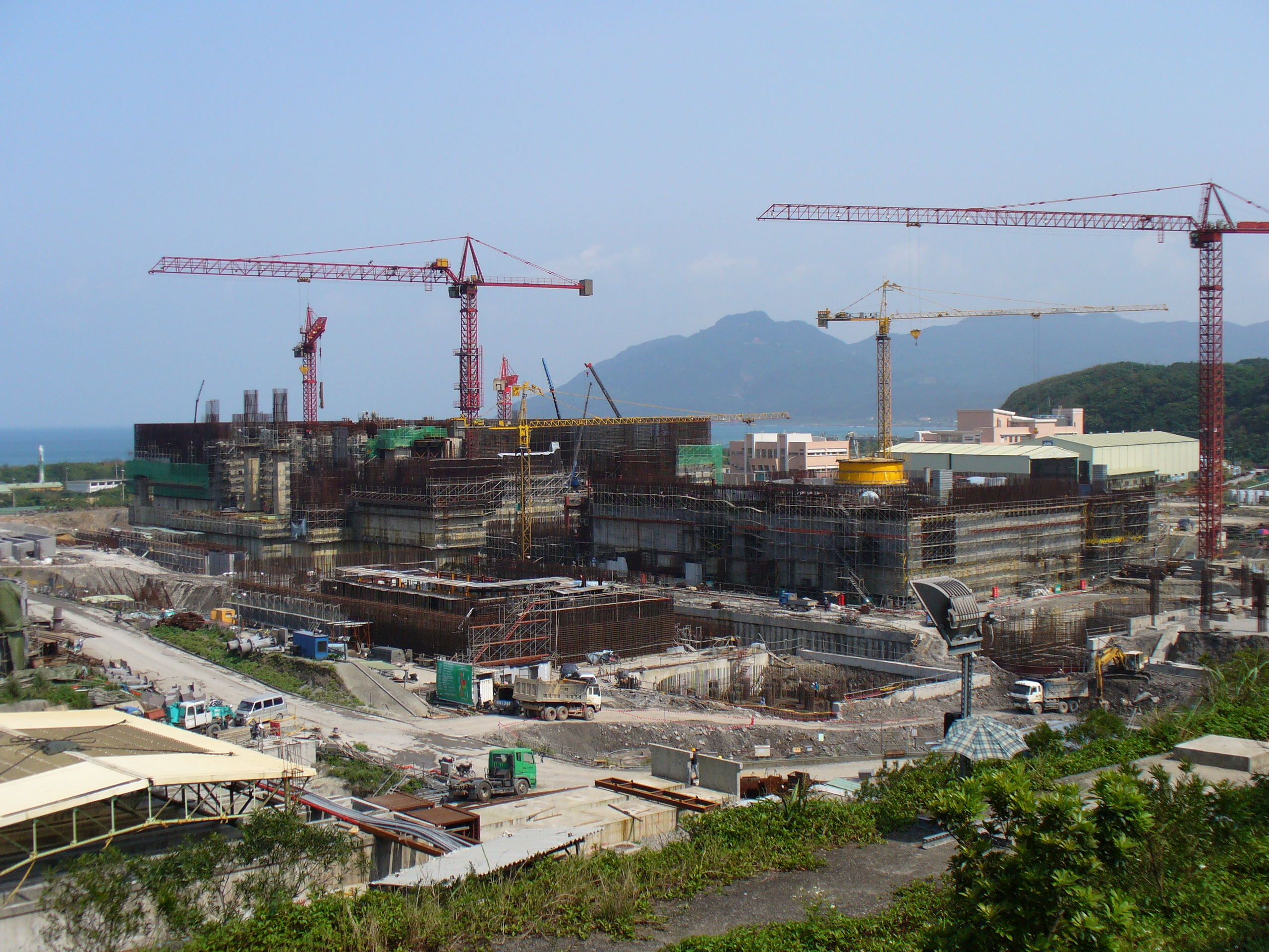 Construction of Lungmen Nuclear Power Plant in Taiwan as of March 31st 2006